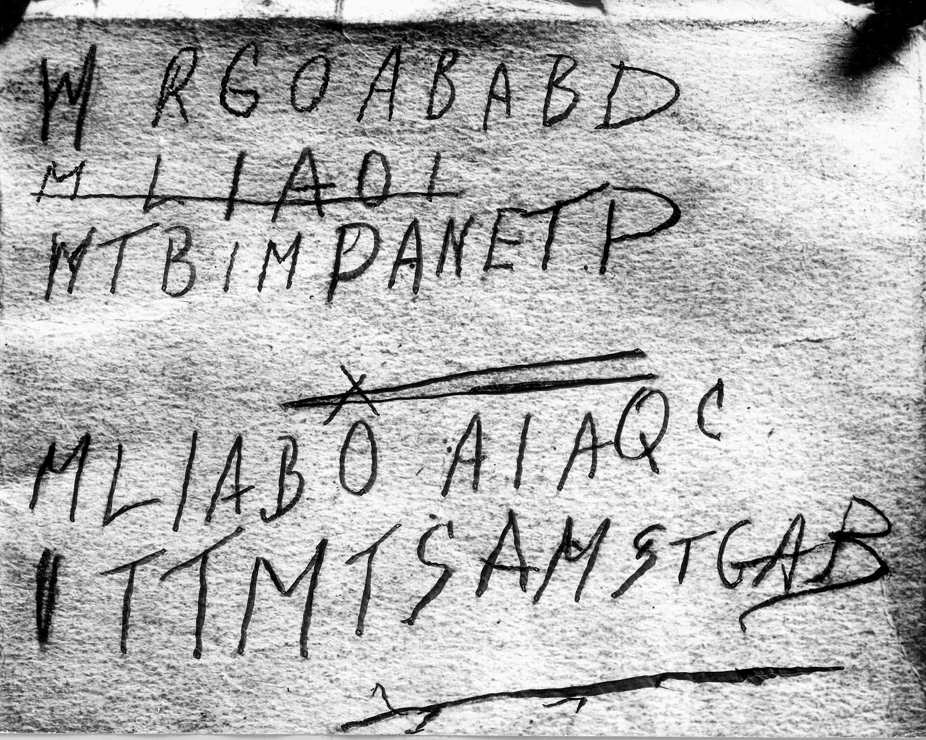 This is a police scan of the handwritten code found in the back of a copy of The Rubiayat of Omar Khayyam, believed to belong to the dead man, found in the back of a car in Glenelg, 1 December 1948 (see Taman Shud case)